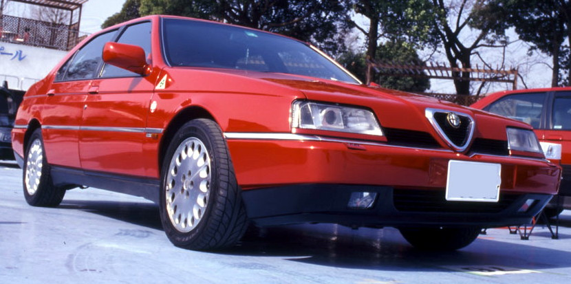 Description: Alfa164 Super12V (E-164K1P) Source: Toshi_156 Auther: Toshi_156 Location Nerima,Tokyo,Japan Date14 March 2004